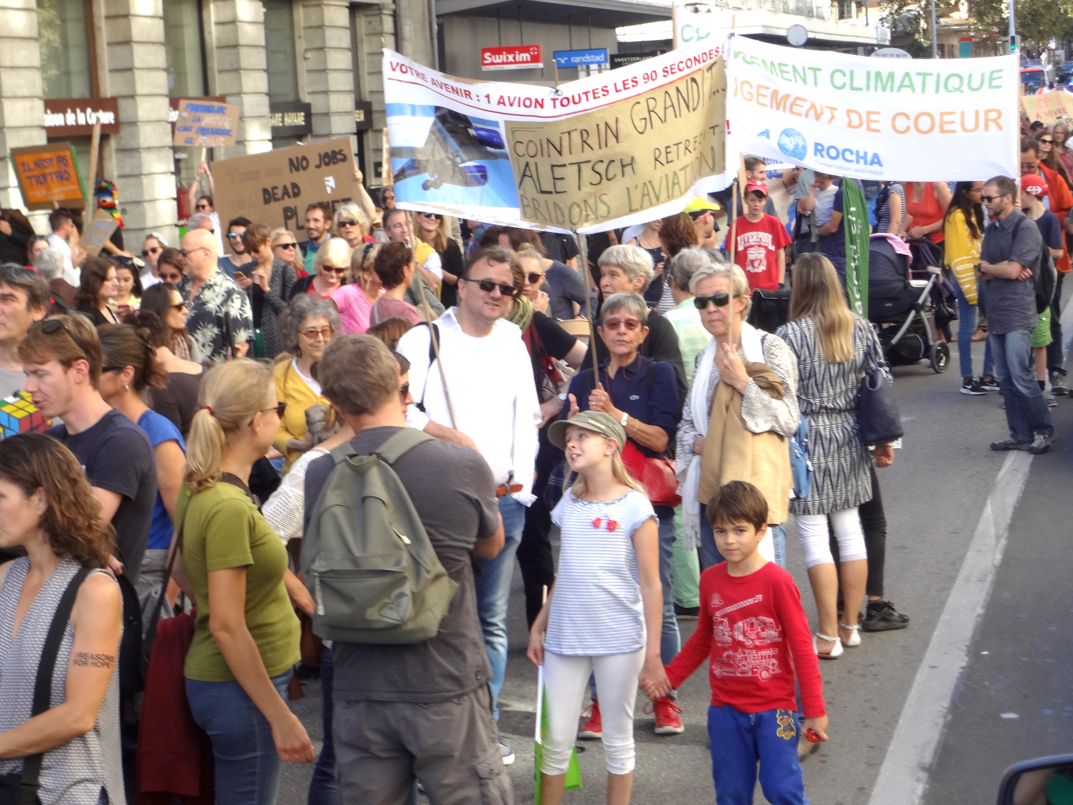 March for climate in Geneva (Switzerland), on 14 October 2018.